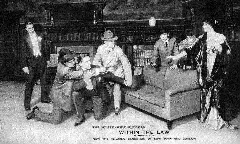 Photo postcard ad for the Broadway play Within the Law. The photo is a scene from the play.